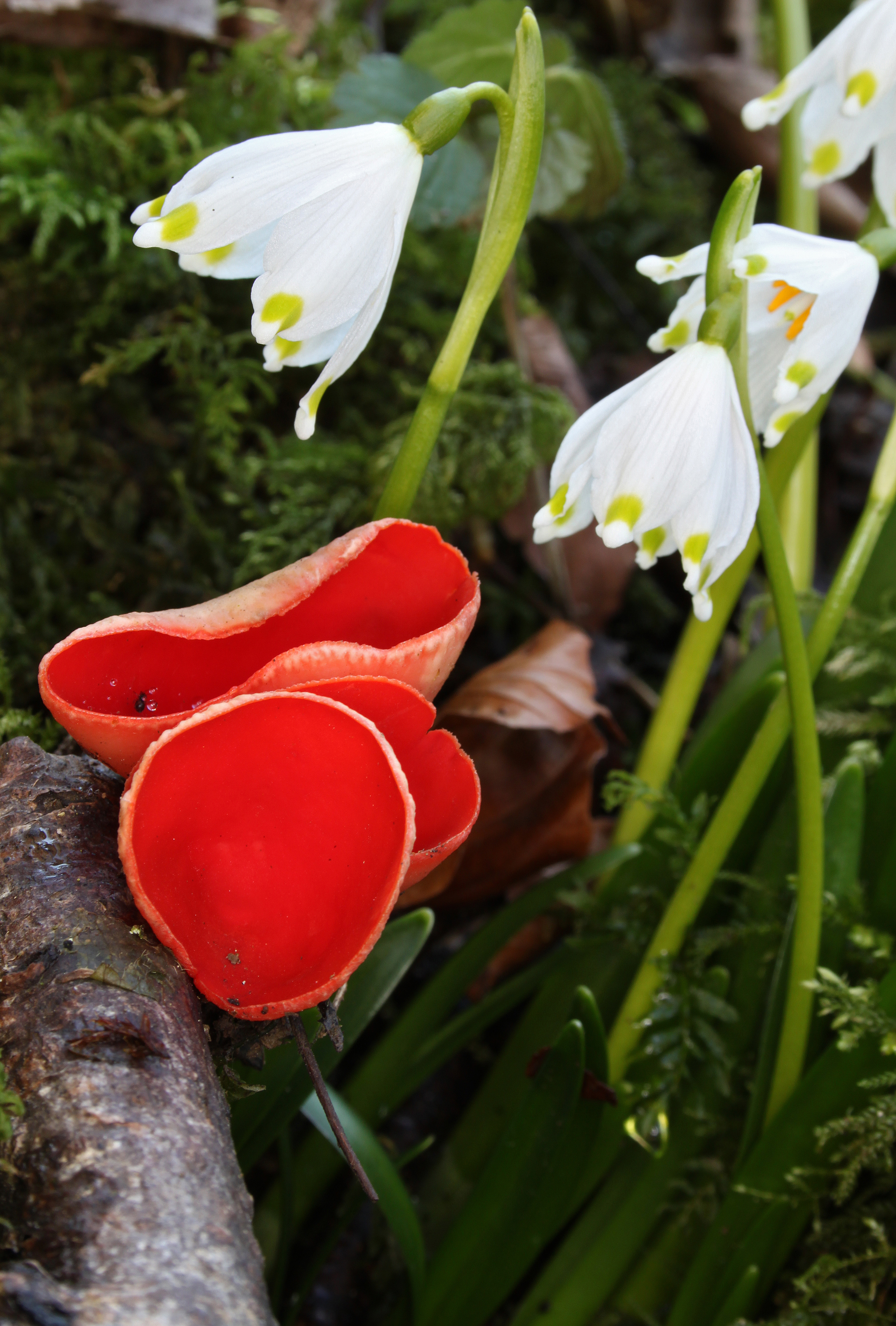 Sarcoscypha jurana between Leucojum vernum, Family: Sarcoscyphaceae, Location: Germany, Lauterach, Wolfstal